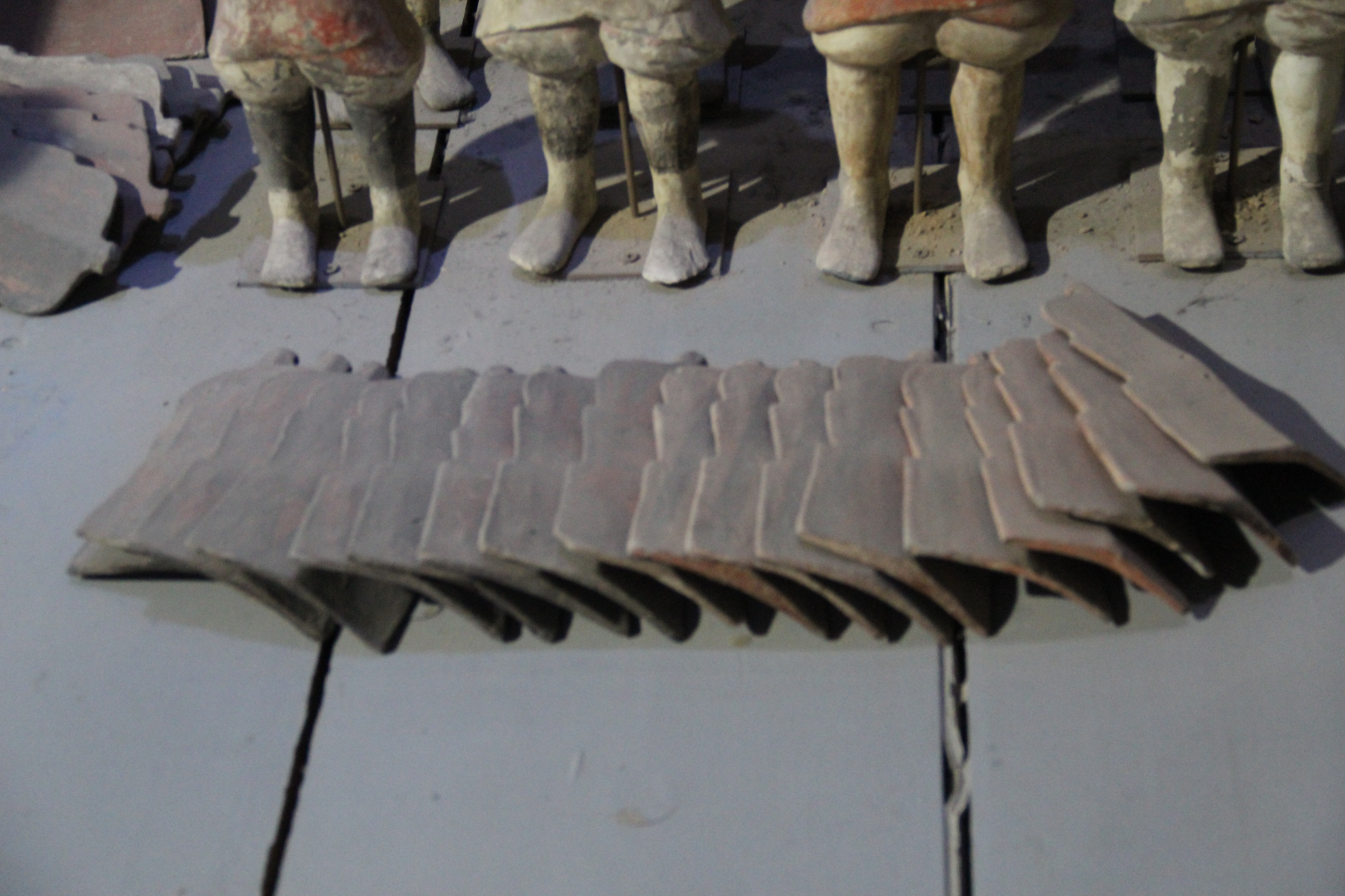 Han terracotta funerary shields.